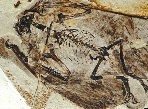 Jeholopterus ningchengensus Wang, Zhou, Zhang, and Xu, 2002, IVPP V 12705, Lower Yixian Formation (Early Cretaceous), China.